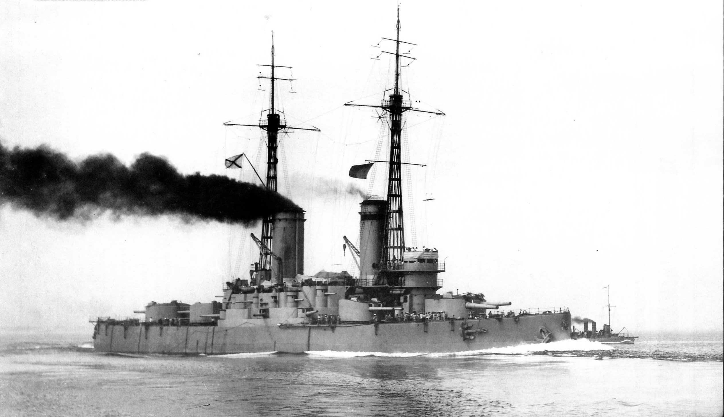 Imperial Russian battleship Andrei Pervozvannyy, 1912.